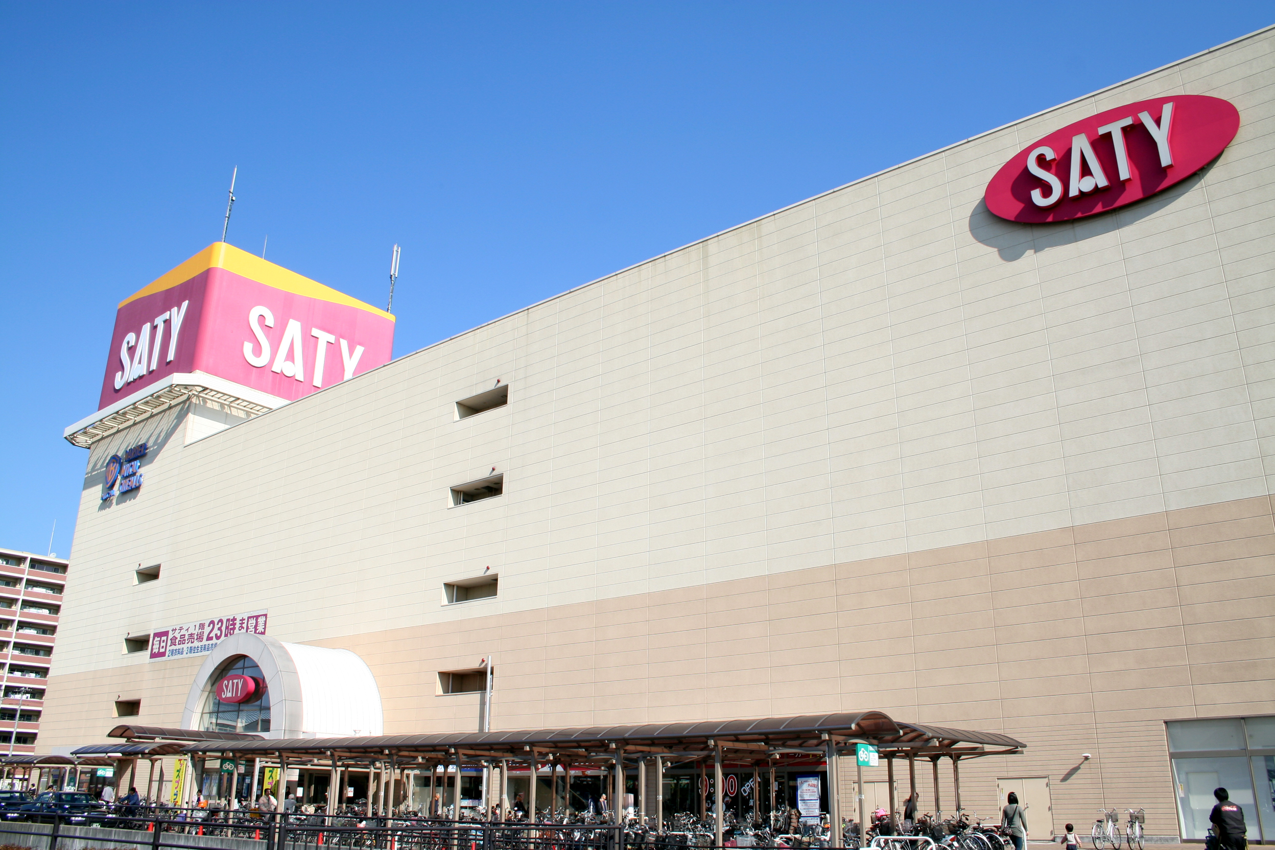 Japanese Omiya SATY in Saitama prefecture.